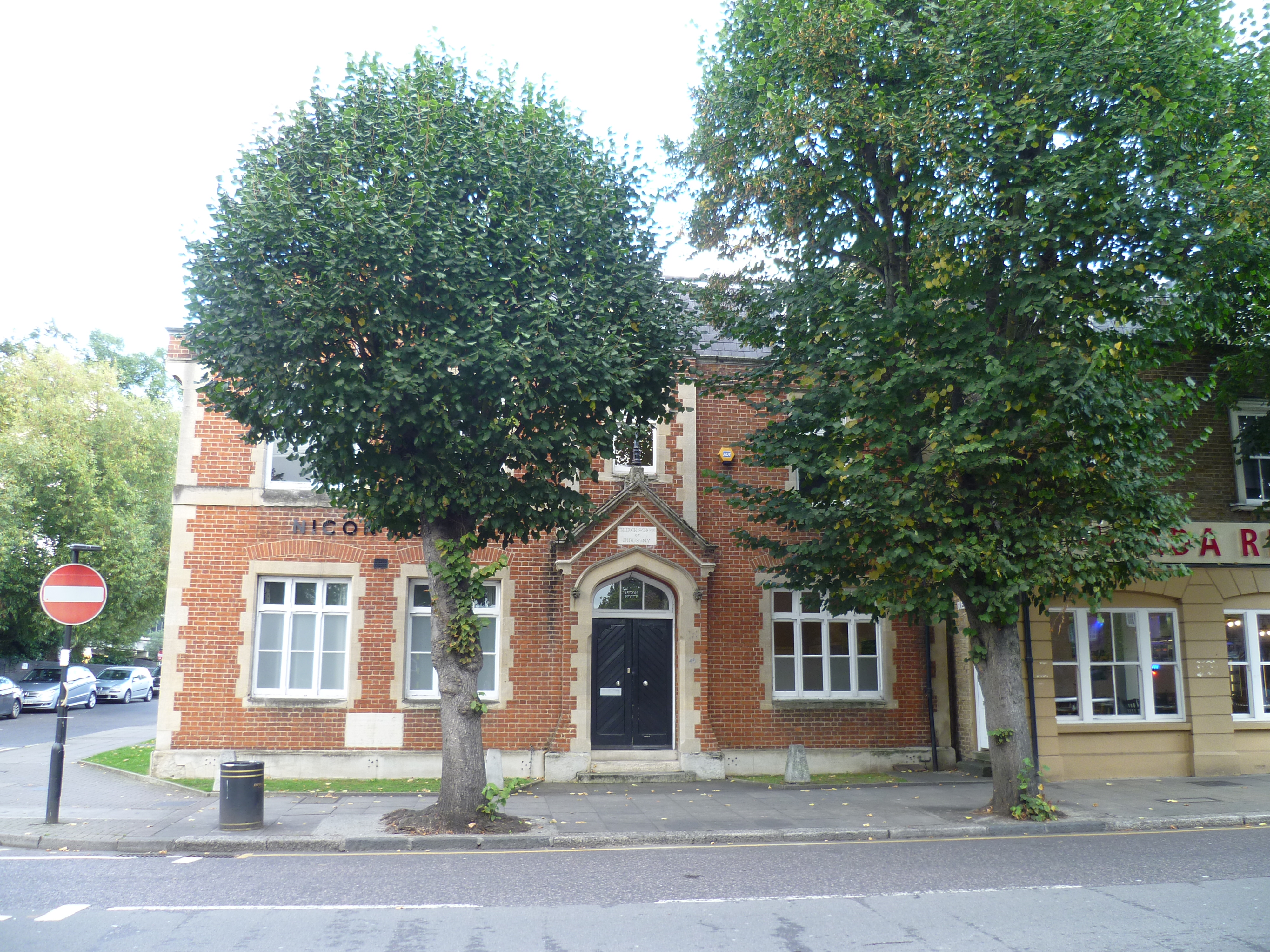 Nicon House, Silver Street, former Church School of Industry